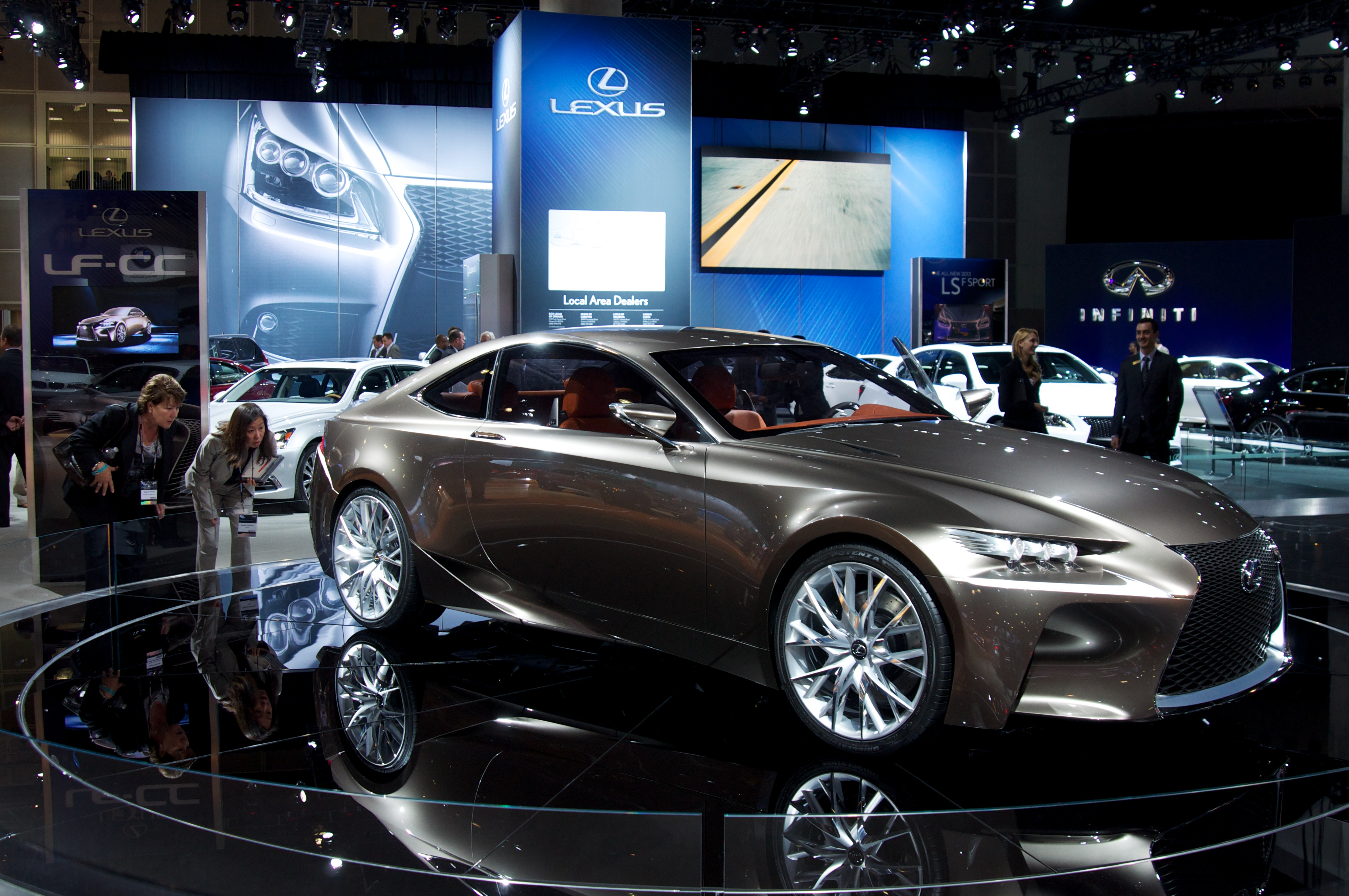 Seen at the 2012 Los Angeles Auto Show. Press day - Wednesday, November 28th. If you use one of my photos, please be so kind as to attribute me and link back to the photo's page. THANK YOU!